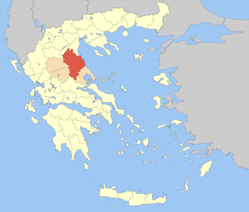 Locator map of Larisa prefecture (Νομός Λάρισας) in Greece